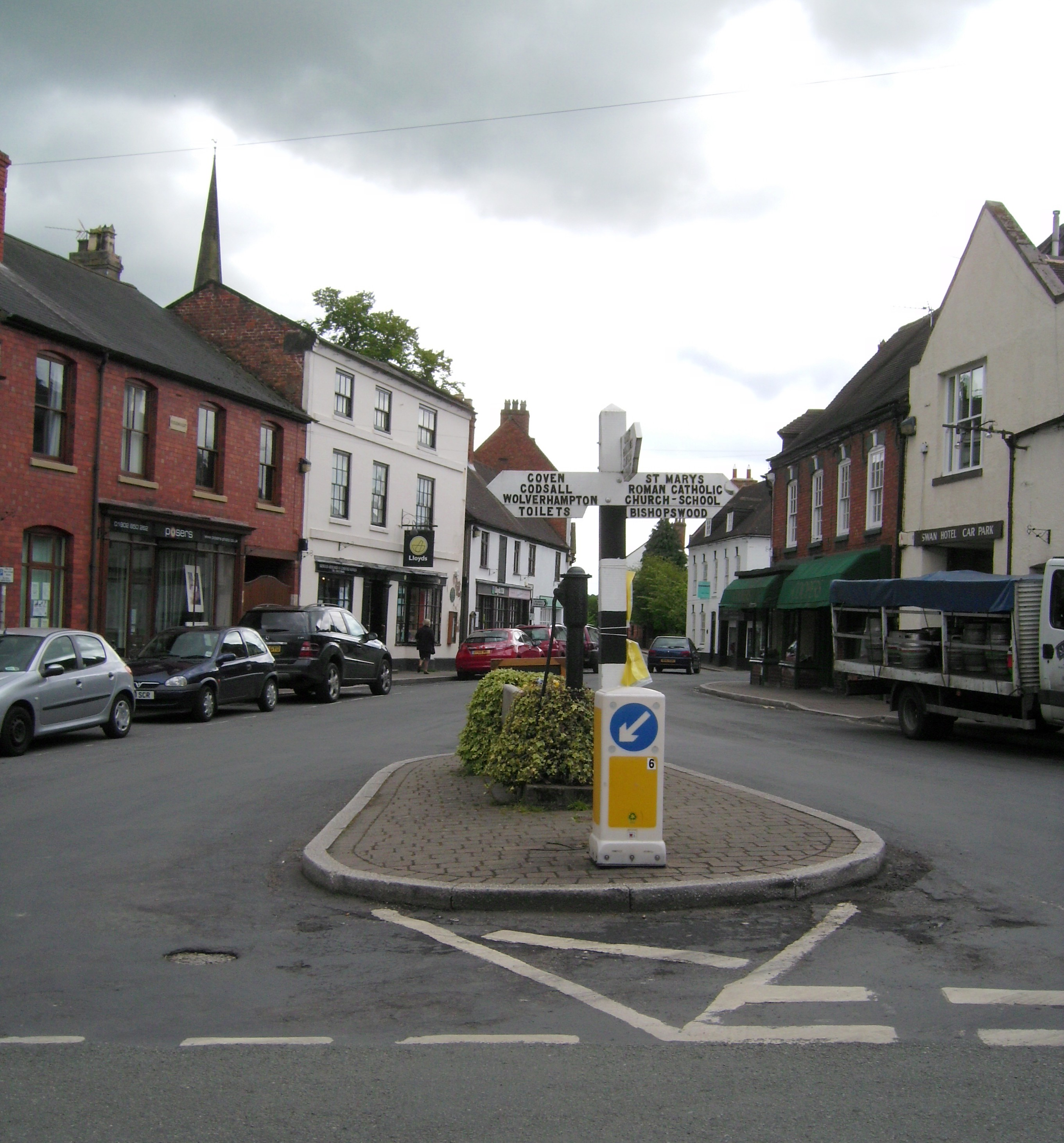 Market Place, historic centre of Brewood, Staffordshire, England.